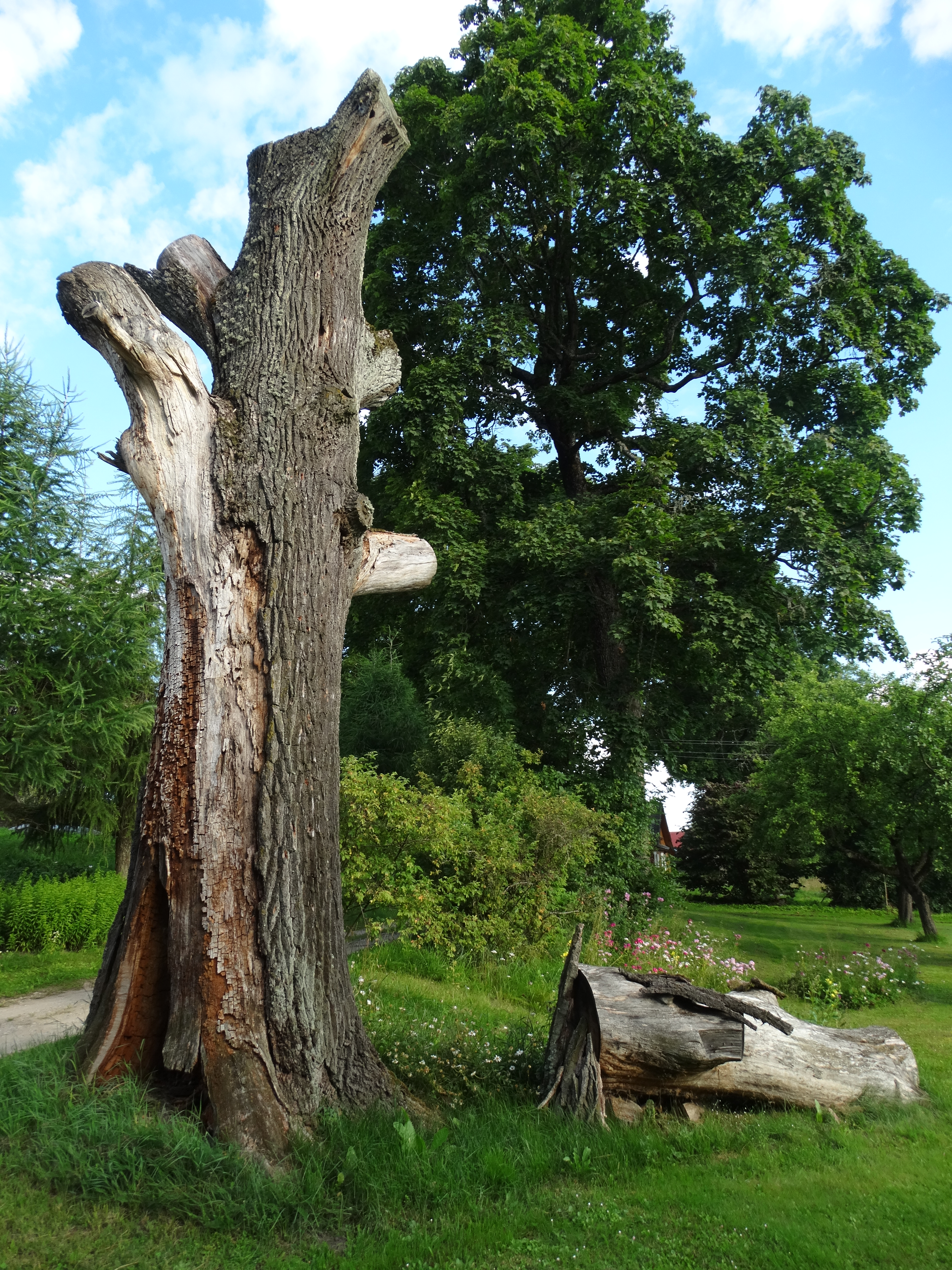 Oak tree (first) in Kretuonys, Švenčionys District, Lithuania